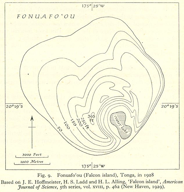 1928 map of Fonuafoʻou Island, a periodically existing island in the west of the Haʻapai Group, Tonga, Pacific Ocean